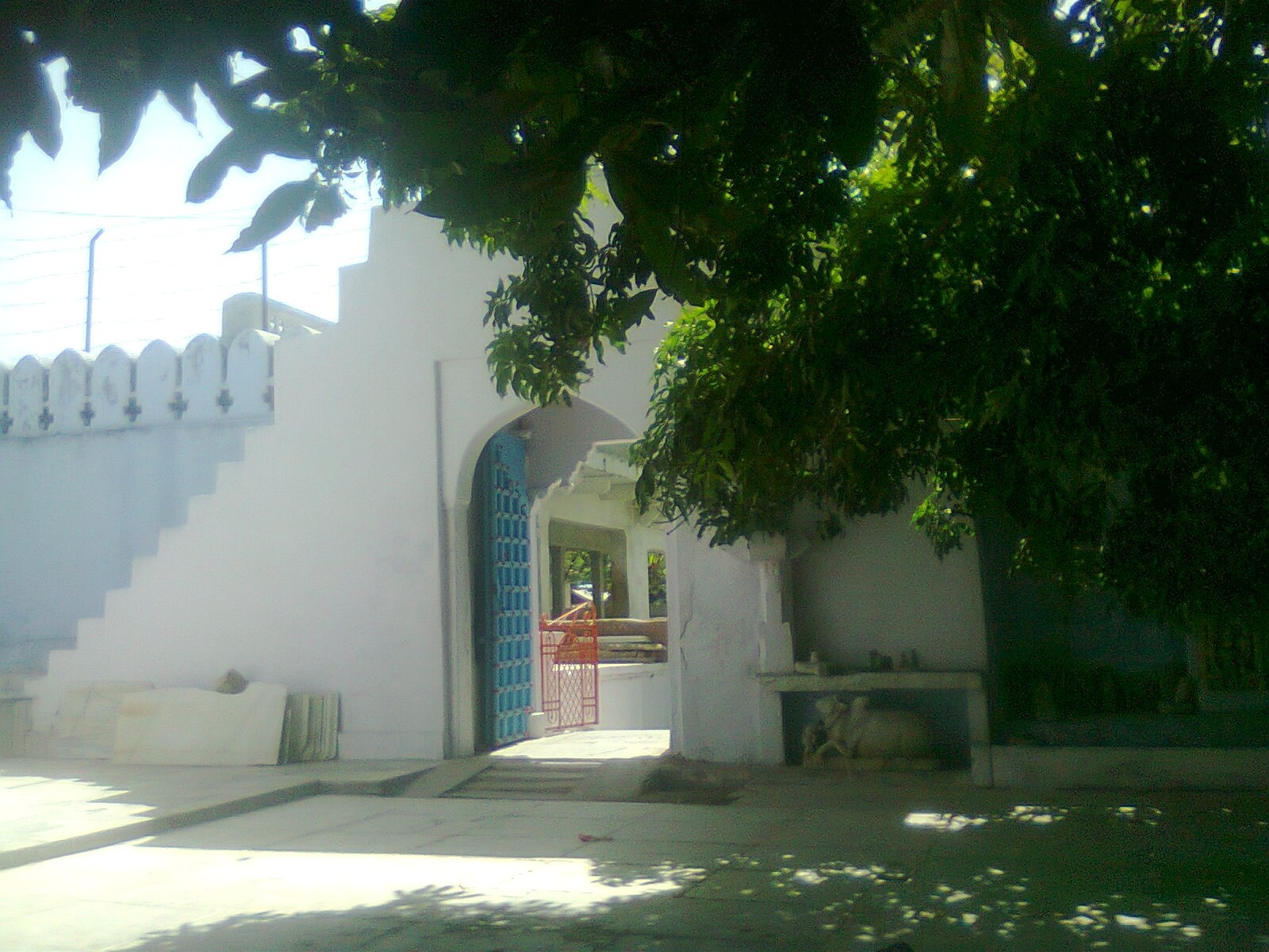 Keleshvar Mahadev